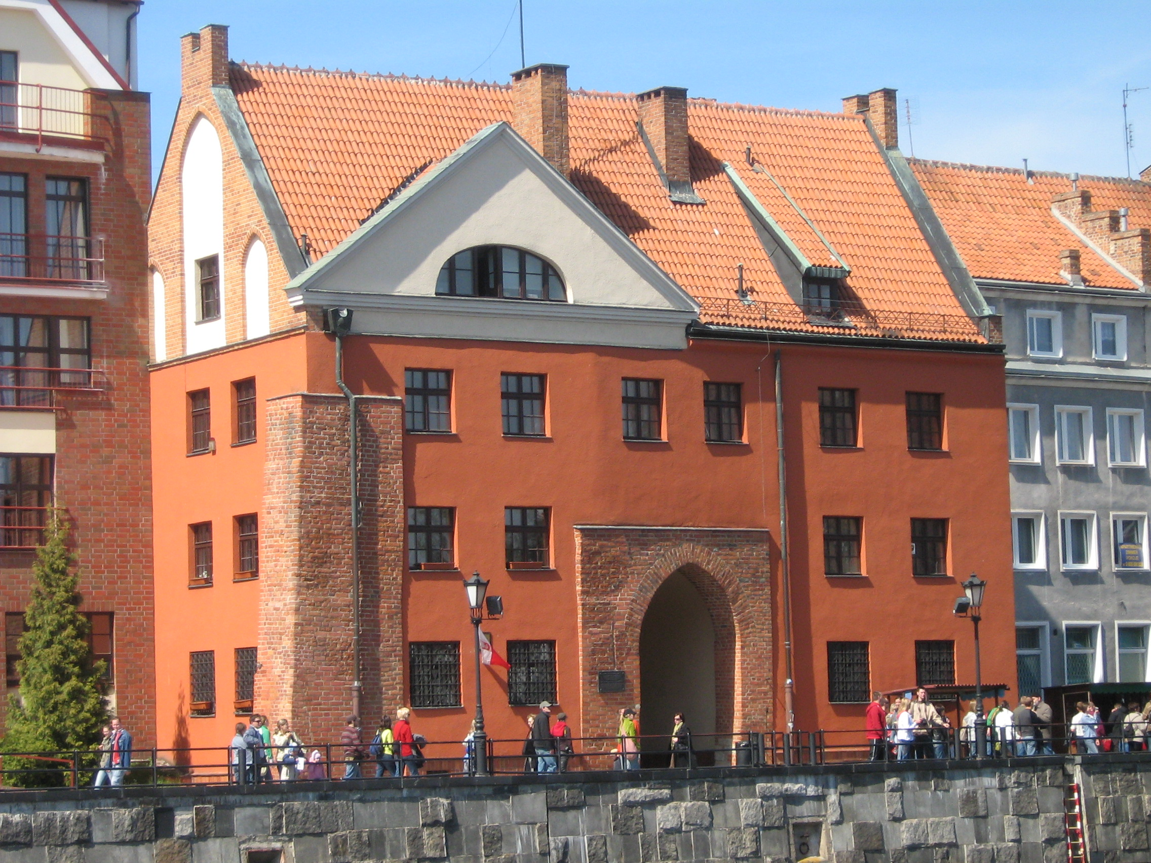 Świętojańska Gate in the Main Town of Gdańsk.